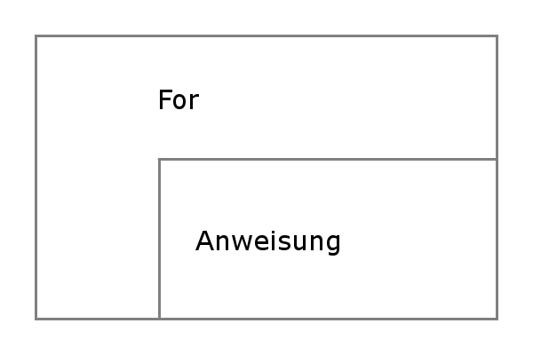 Counting loop (for loop)